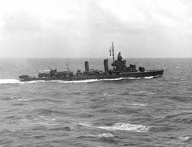 The U.S. Navy destroyer USS Duncan (DD-485) underway in the South Pacific on 7 October 1942, five days before she was sunk in the Battle of Cape Esperance. The photo was taken from the escort carrier USS Copahee (ACV-12), which was then engaged in delivering aircraft to Guadalcanal.